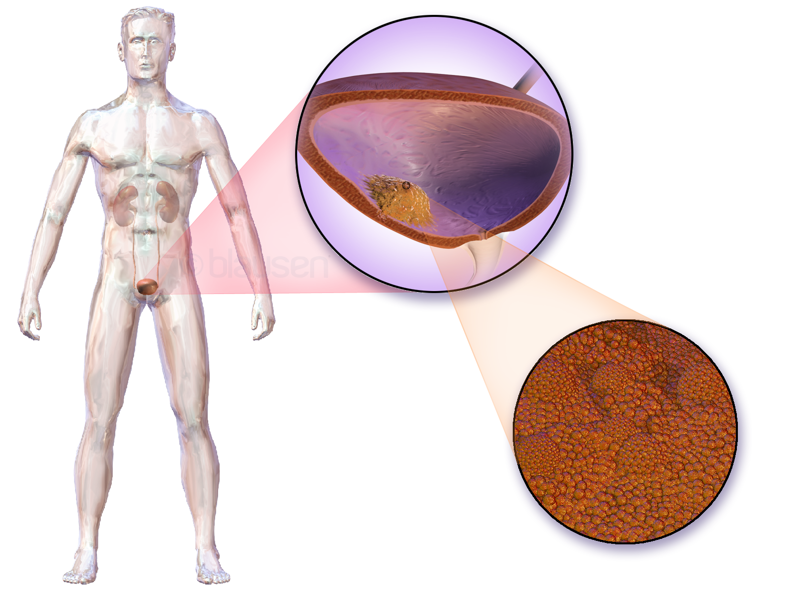 Bladder Cancer. See a full animation of this medical topic.